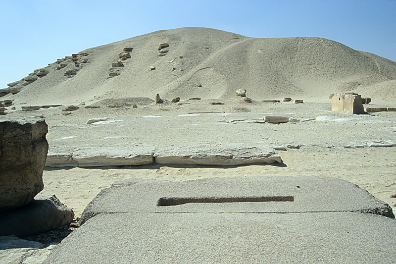 Offering temple, view to the west, south pyramid of Sesostris I, Lisht, Egypt